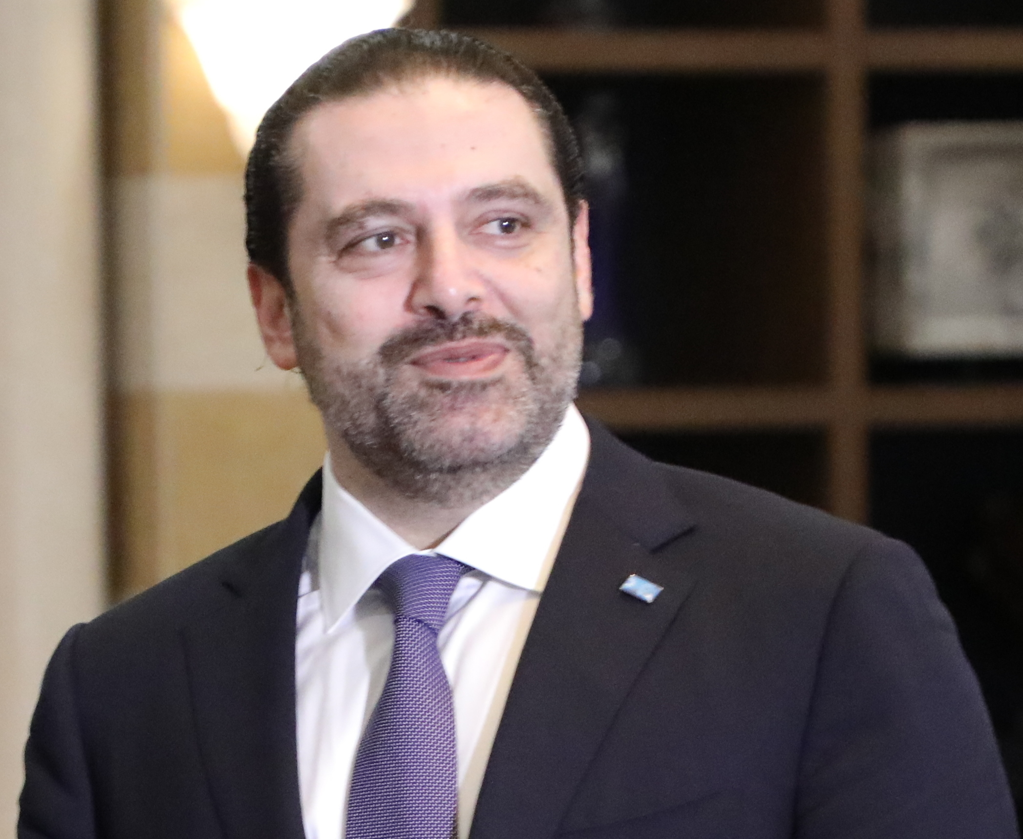 Secretary Tillerson Meets With Lebanese Prime Minister Saad Al Hariri